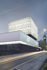 New Engineering Building